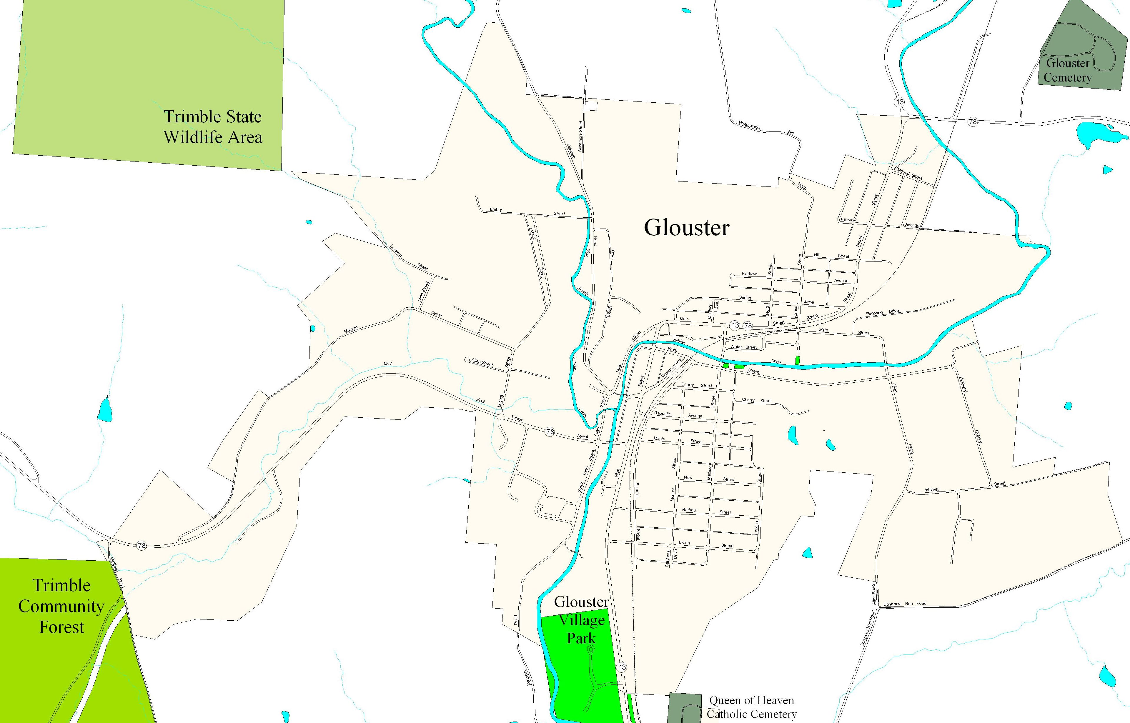 Political map of Glouster, an incorporated village in Trimble Township, Athens County, Ohio